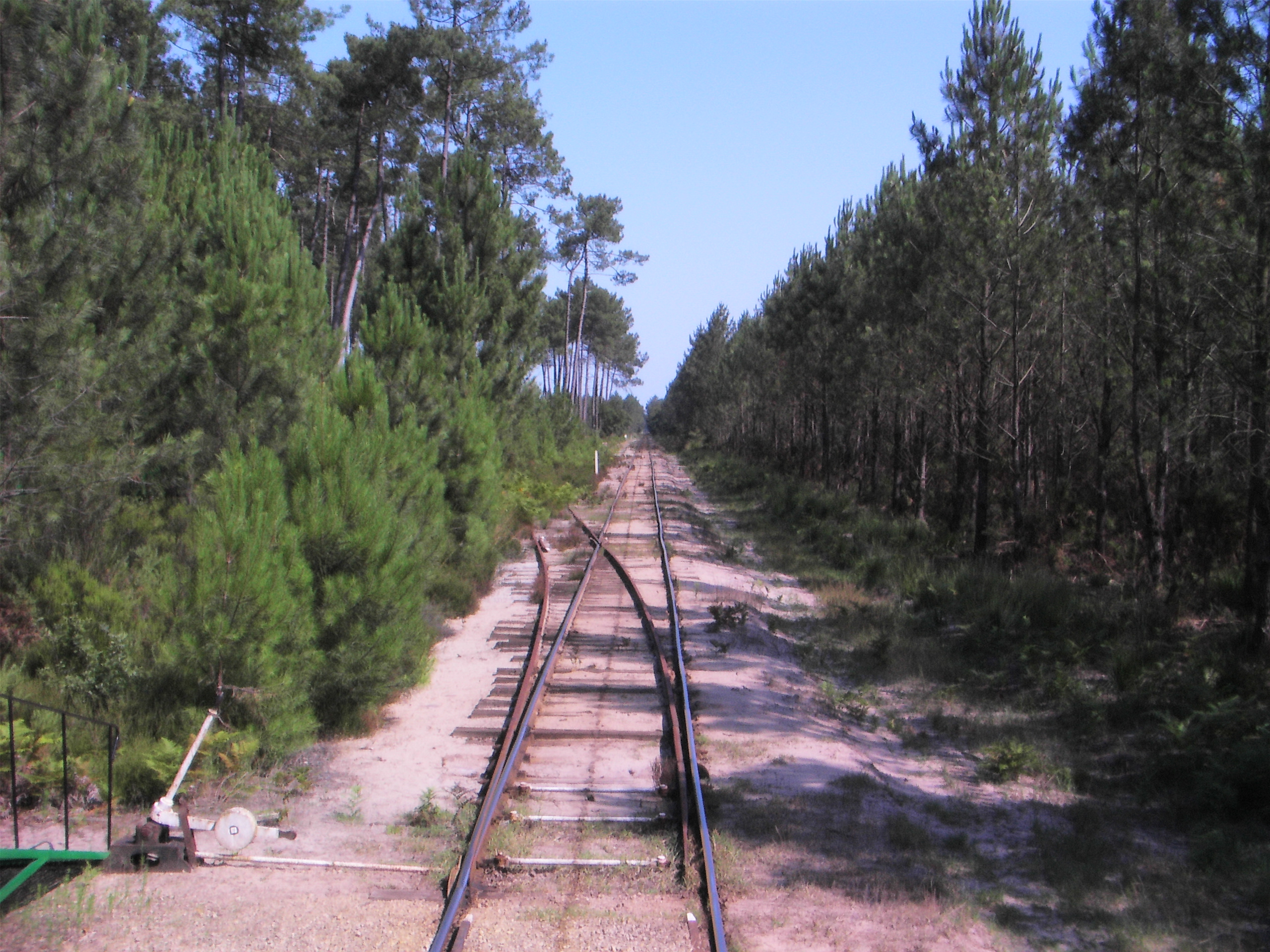 Marquèze